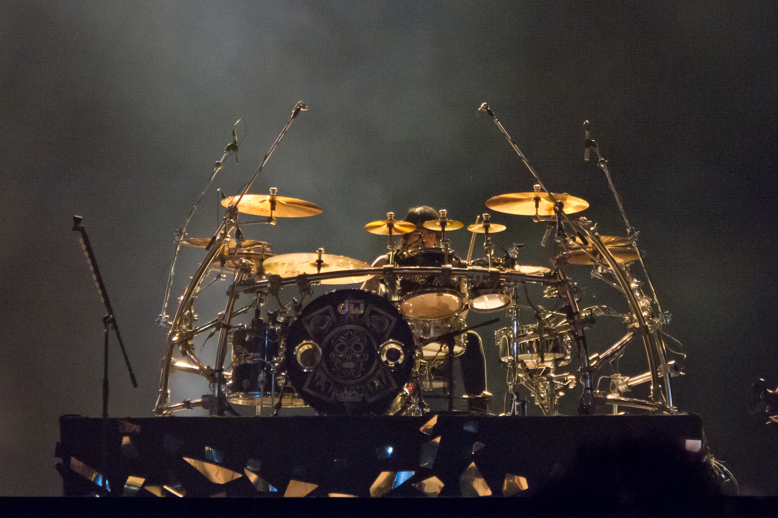 Maná in concert in Rock in Rio in Madrid in 2012.